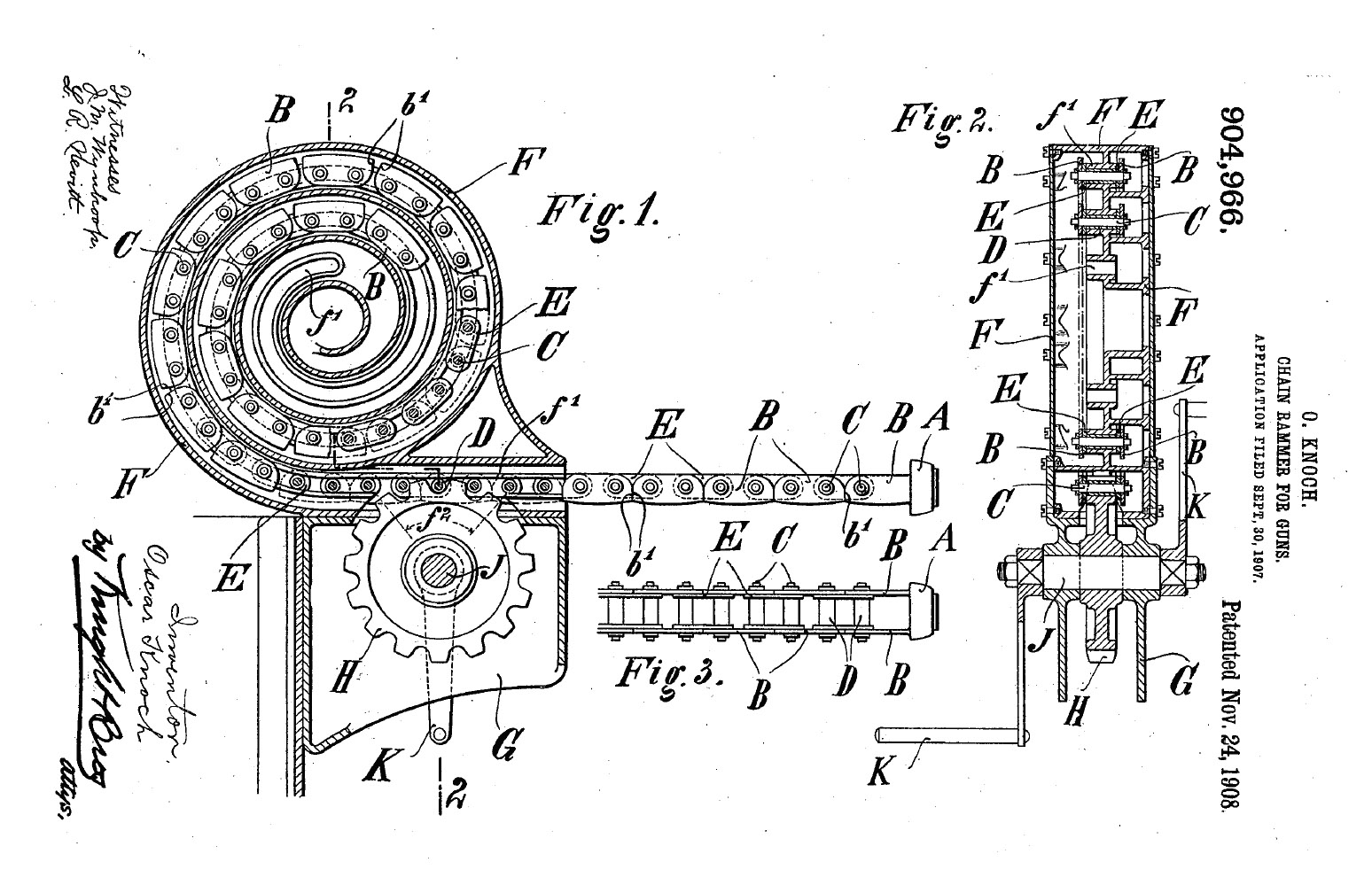 Patent Drawing for Chain Rammer, U.S. Patent 904,966 (1908). A chain rammer was a device used to load heavy-caliber ordinance into the breech of a cannon.